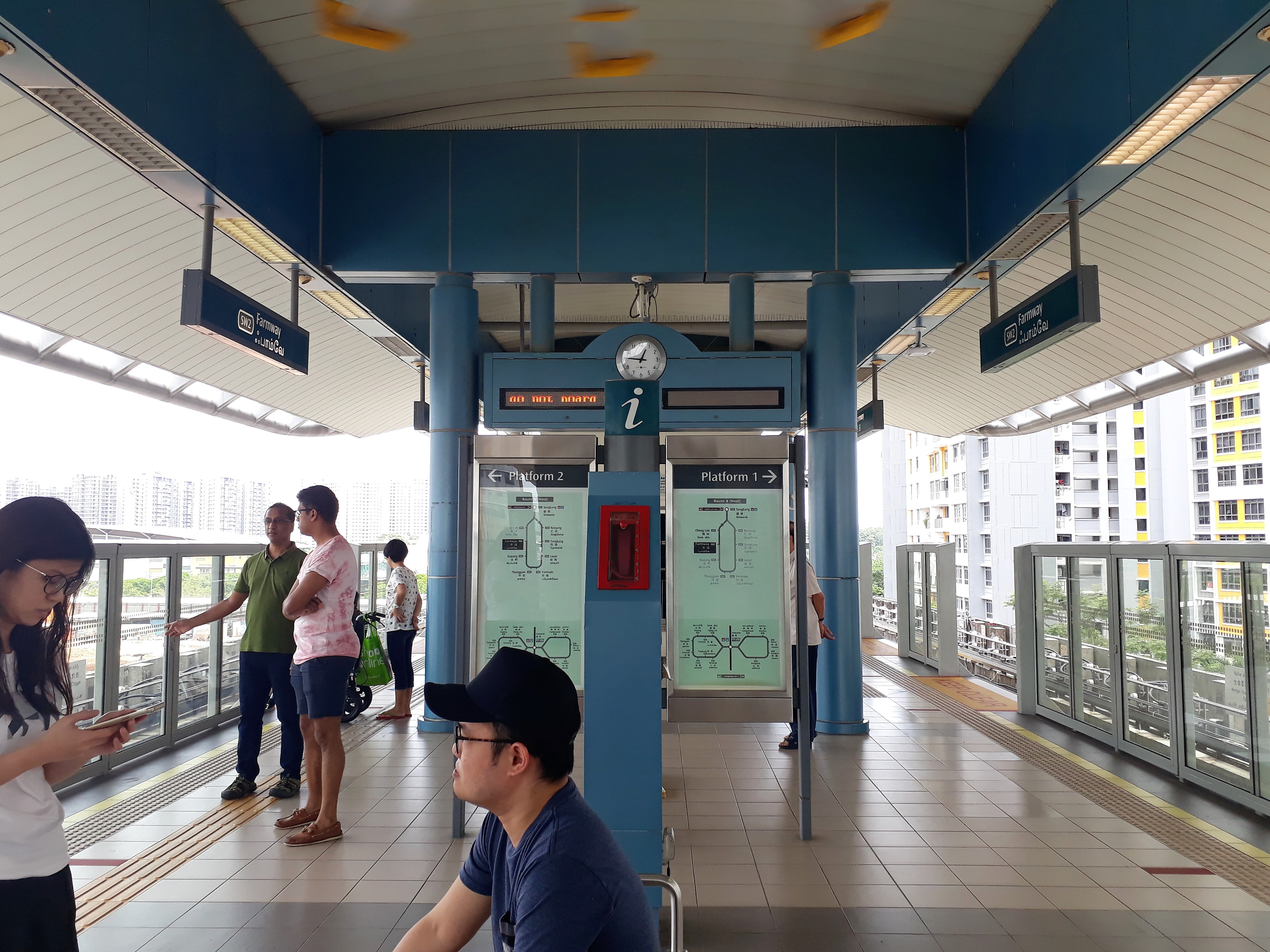 Farmway LRT